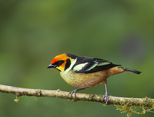 Flame-faced Tanager